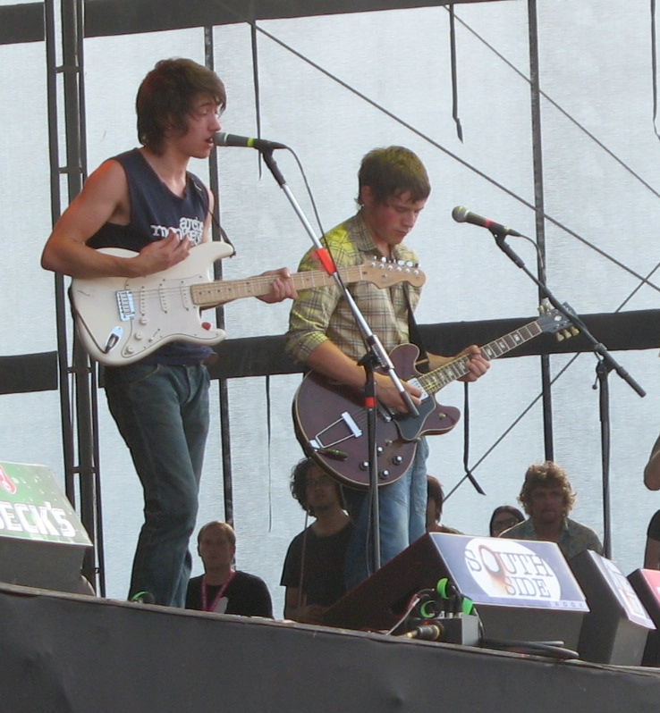 The Arctic Monkeys, playing live on a festival in June 2006.